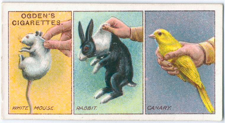 How to Hold Pets - 2